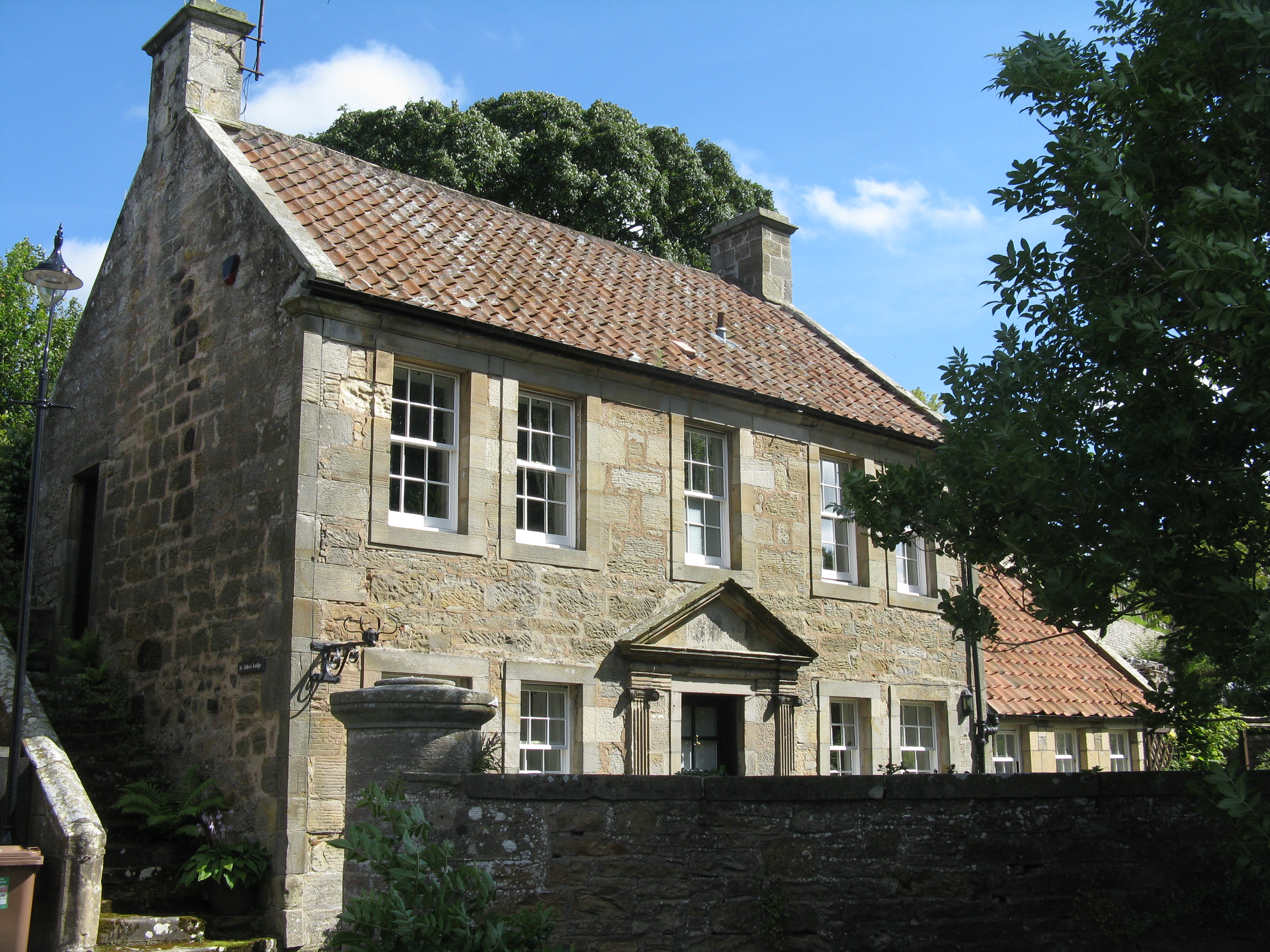 St John's Lodge, Ceres